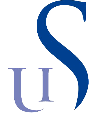 UiS logo, copy of orginal source